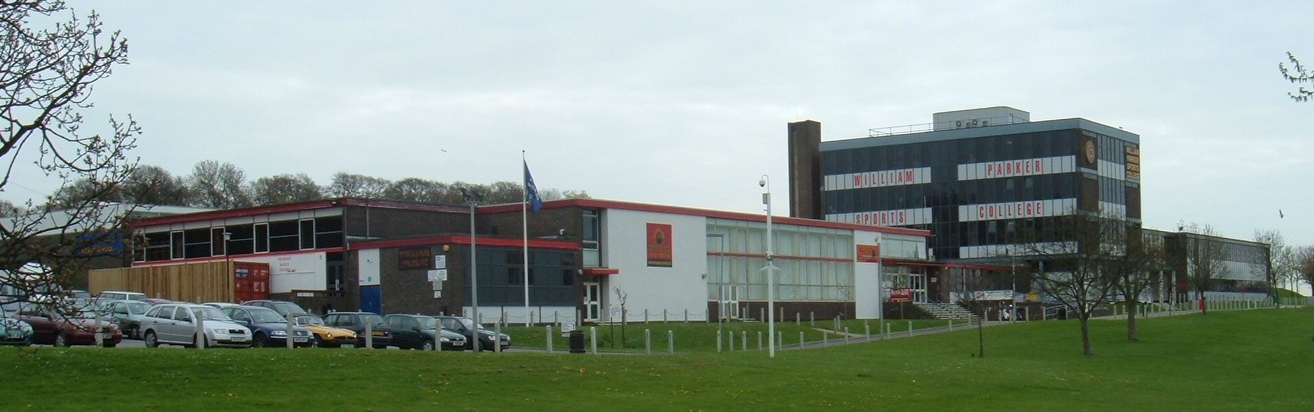 William Parker School, Hastings, UK. Taken by contributor spring 2006.